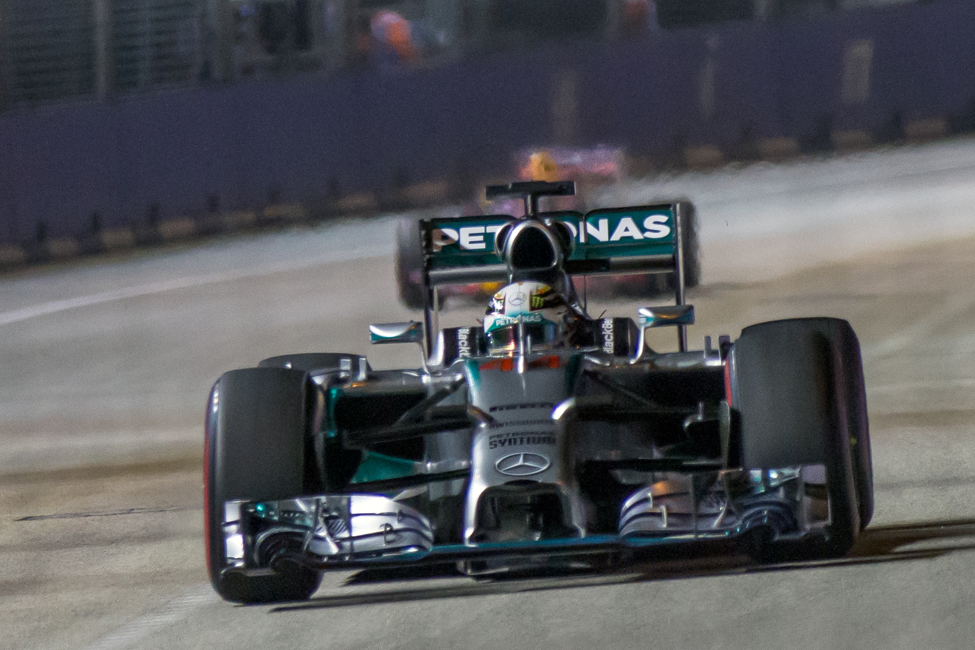 Formula One 2014 Rd.14 Singapore GP: Lewis Hamilton (Mercedes GP)